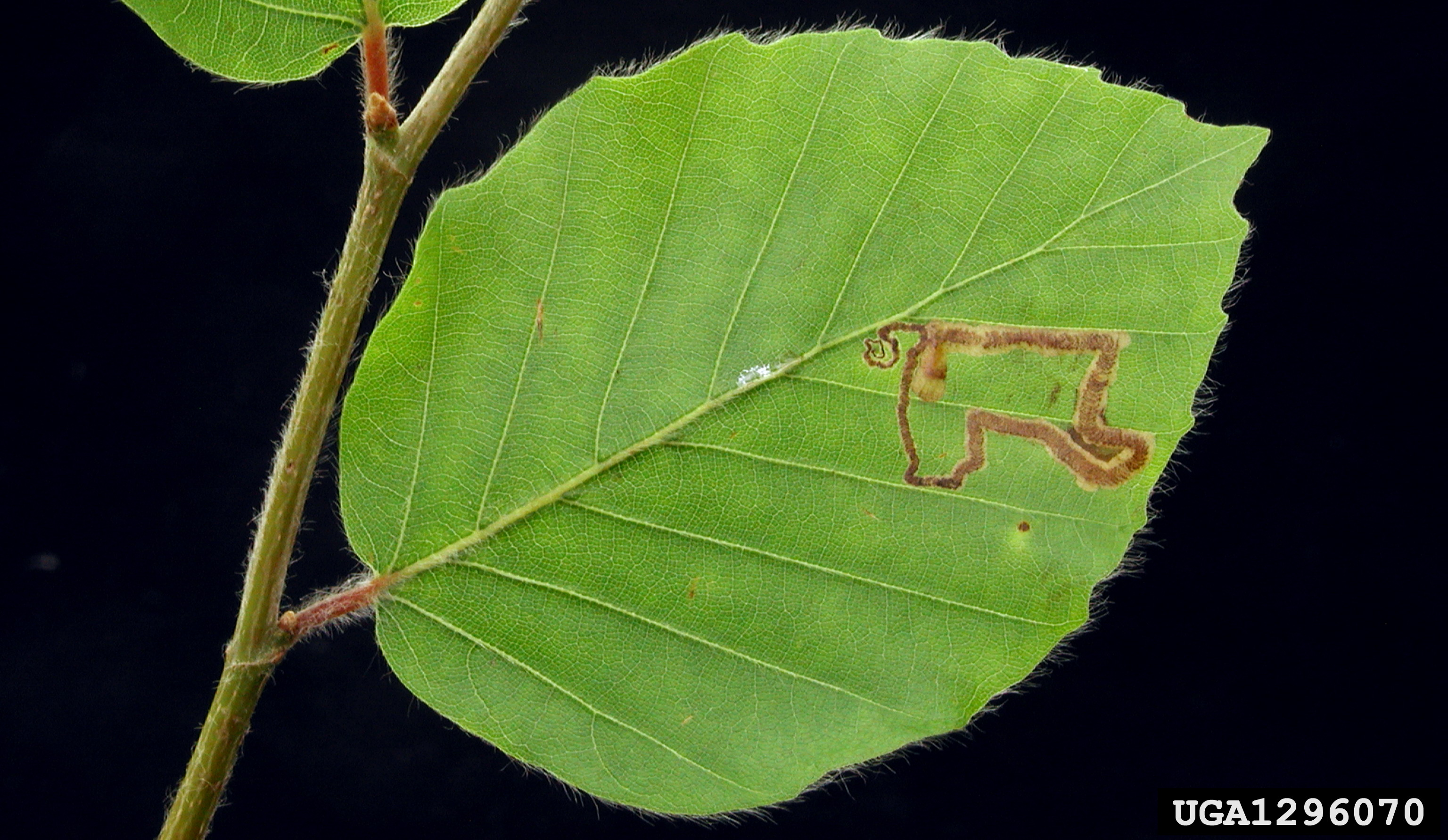 Stigmella hemargyrella